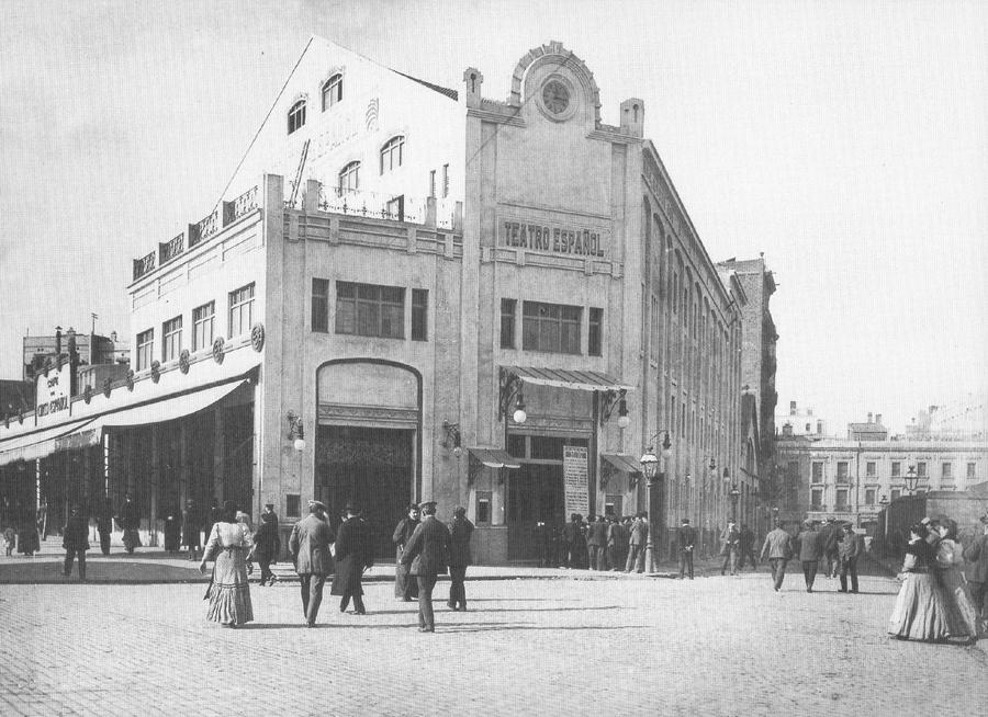 Teatre Español, Barcelona, Spain. 1912 photograph